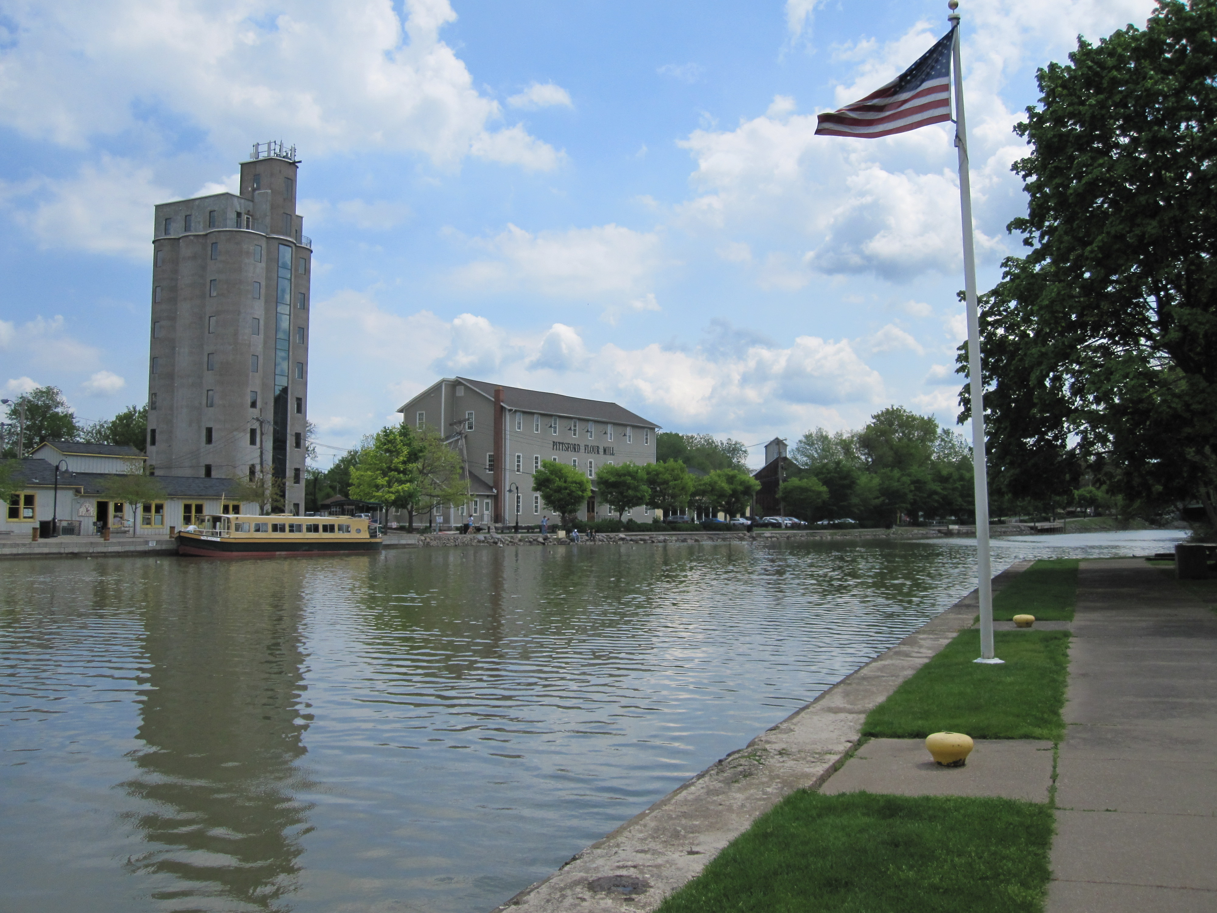 The rehabilitated ca. 1882 Pittsford Flour Mill visually dominates the Village of Pittsford's historic Erie Canal waterfront